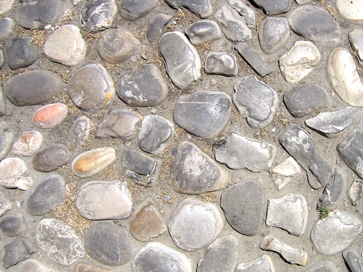 Cobblestones at a central place in the city of Imola in Italy